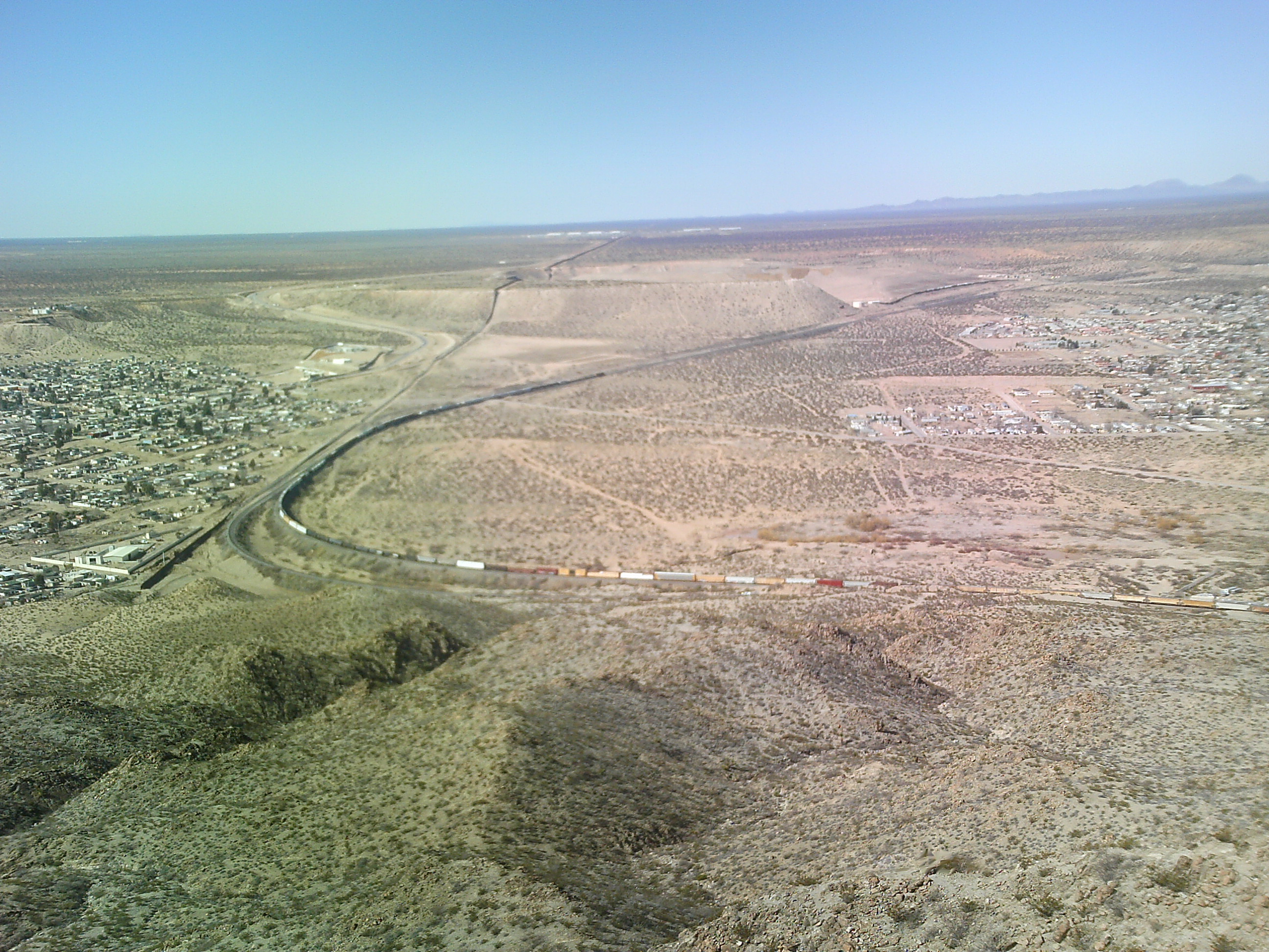 The start of the border fence between the United States and Mexico near Sunland Park, New Mexico, U.S.A. and Rancho Anapra, Chihuahua, Mexico.